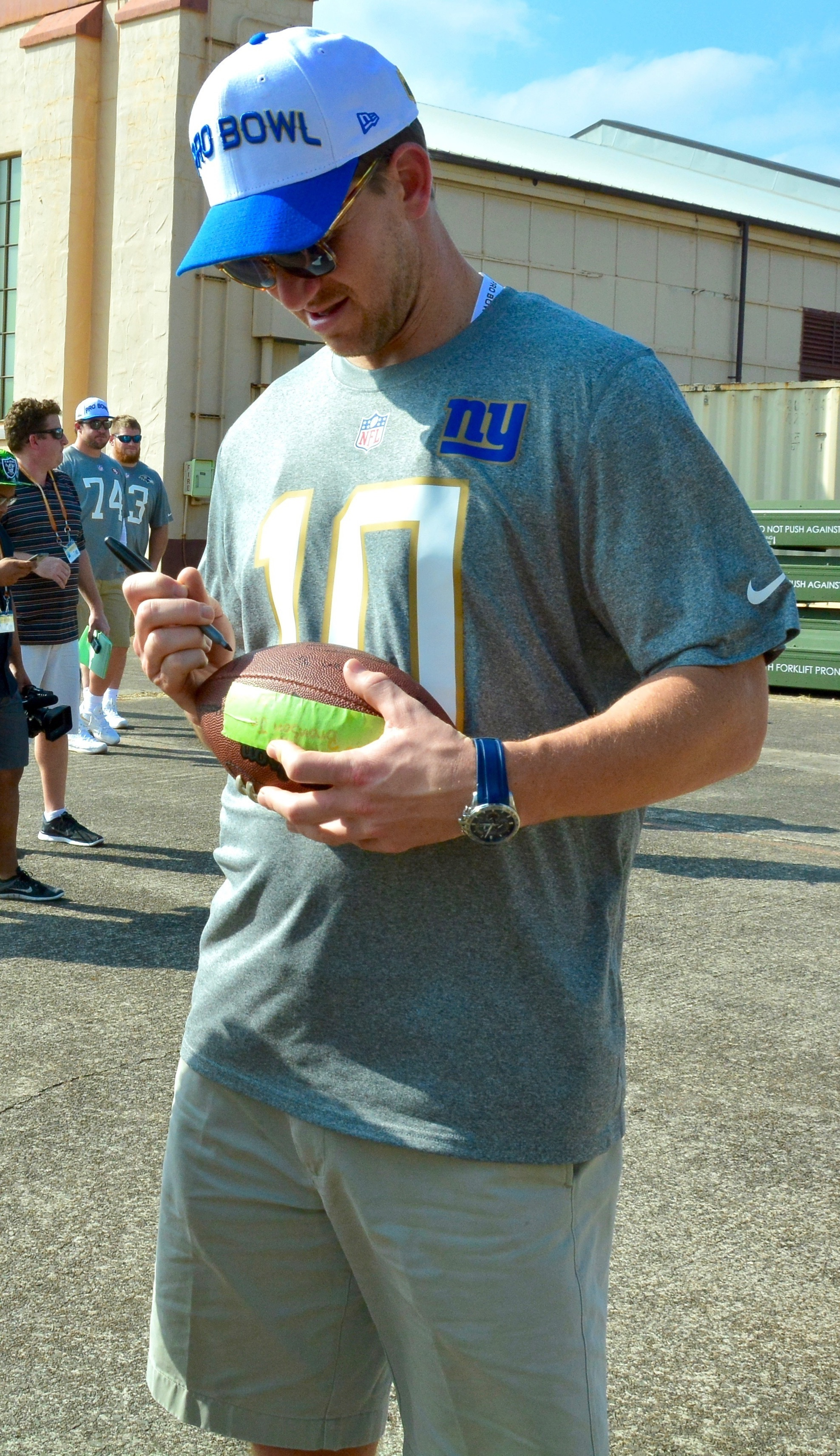 New York Giants quarterback Eli Manning signs an autograph for a member of the 25th Combat Aviation Brigade, 25th Infantry Division, during the 2016 Pro Bowl Draft show at Wheeler Army Airfield, Hawaii, Jan. 27.